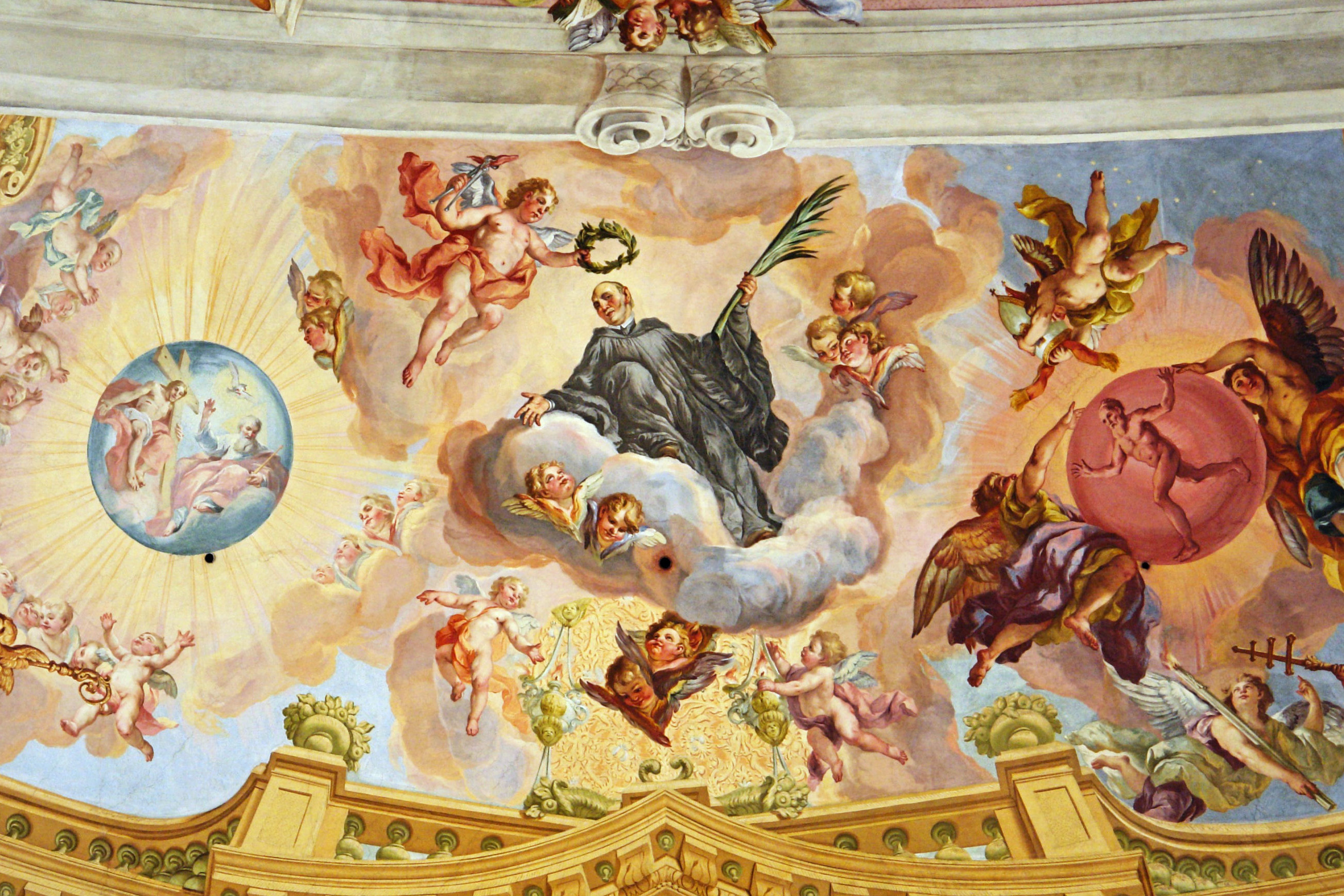 The monk's victory in the battle for virtue is portrayed by the victor’s laurels over the monk, who has achieved spiritual fulfillment.detail